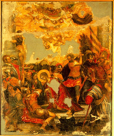 Decapitation of Aghia Paraskevi. The icon is signed by Michael Damaskenos and dates from the 16th century.